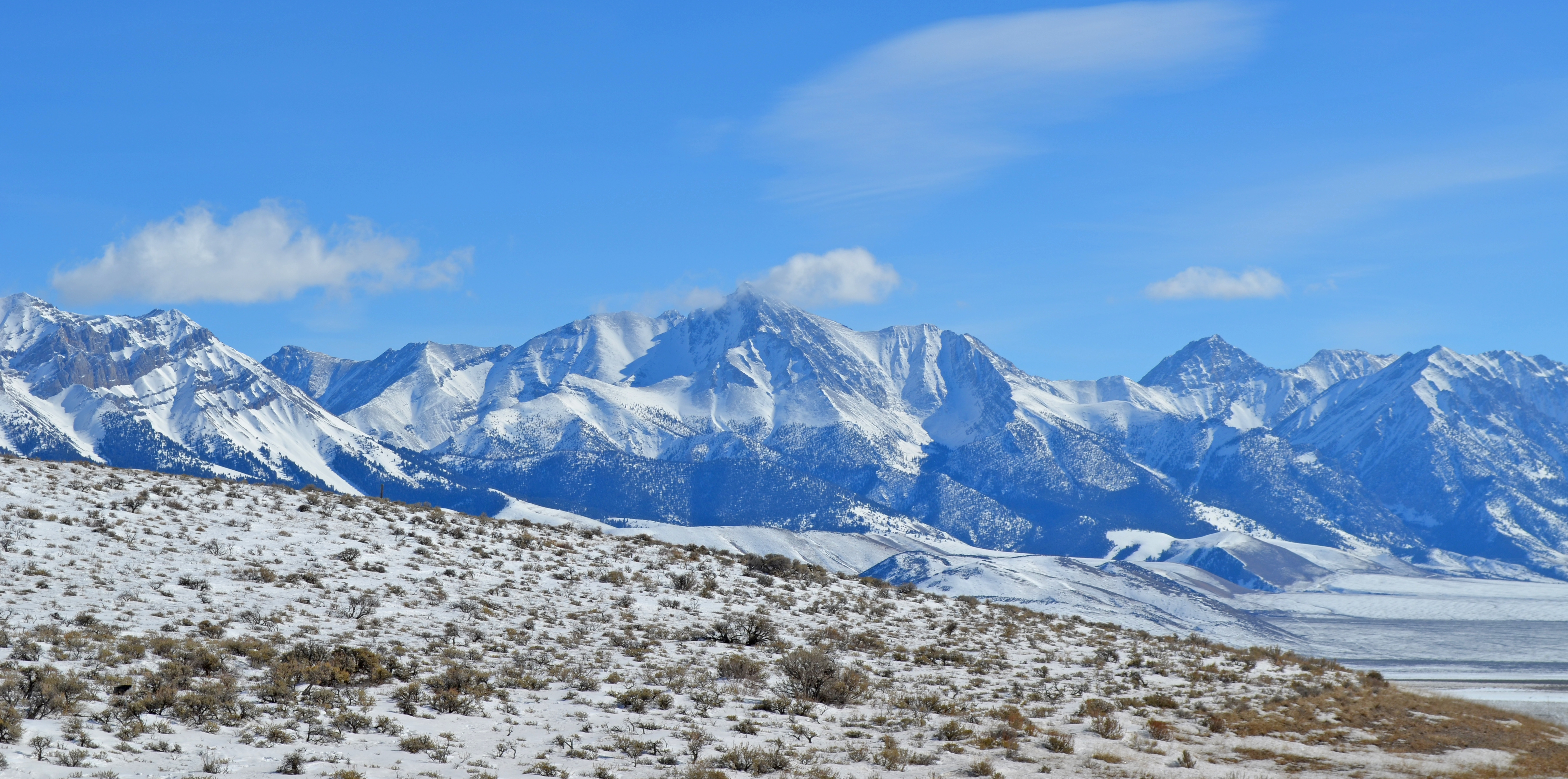 Lost River Range, BLM Challis Field Office, A. Hedrick, BLM